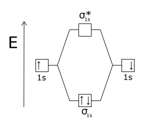 H2 antibonding orbital